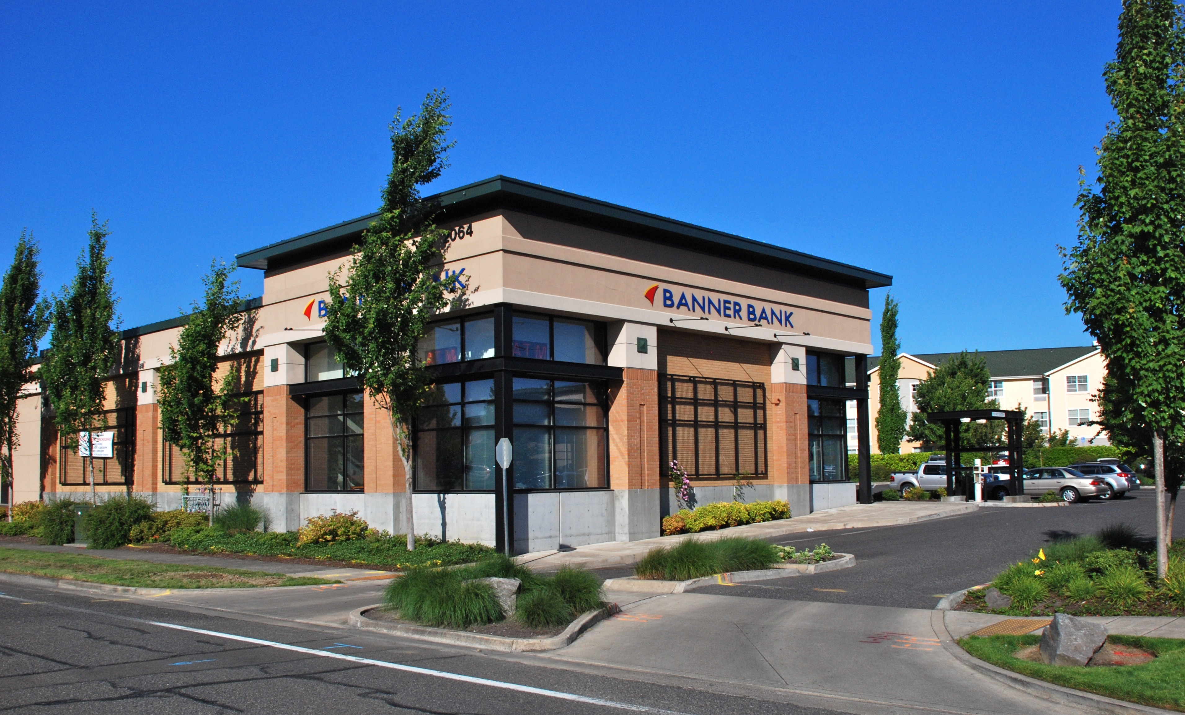 The Tanasbourne branch of Banner Bank, in eastern Hillsboro, Oregon.